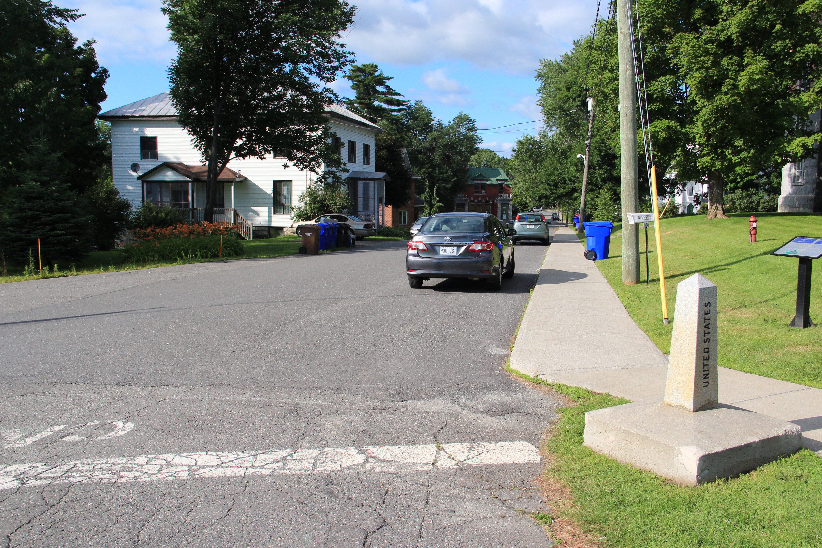 View of Stanstead, Quebec from across the US-Canadian border.